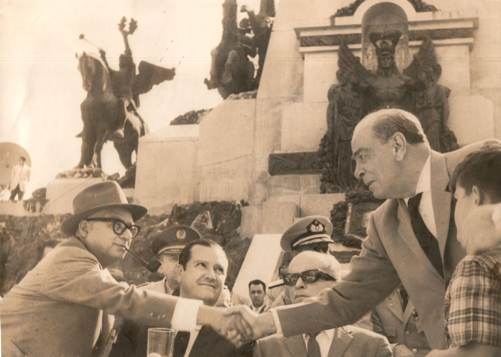 Rómulo Betancourt, President of Venezuela, shakes hands with writer, former president and life senator, Rómulo Gallegos, in the act of promulgation of the Agrarian Reform Law in Campo de Carabobo, Venezuela. Along with them, Rafael Caldera, president of the Chamber of Deputies of the National Congress, together with the deputy and leader of the URD party, Jóvito Villalba.